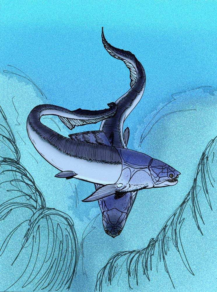 Reconstruction of the brachythoracid arthrodire placoderm, Xiangshuiosteus wui, of Emsian Yunnan